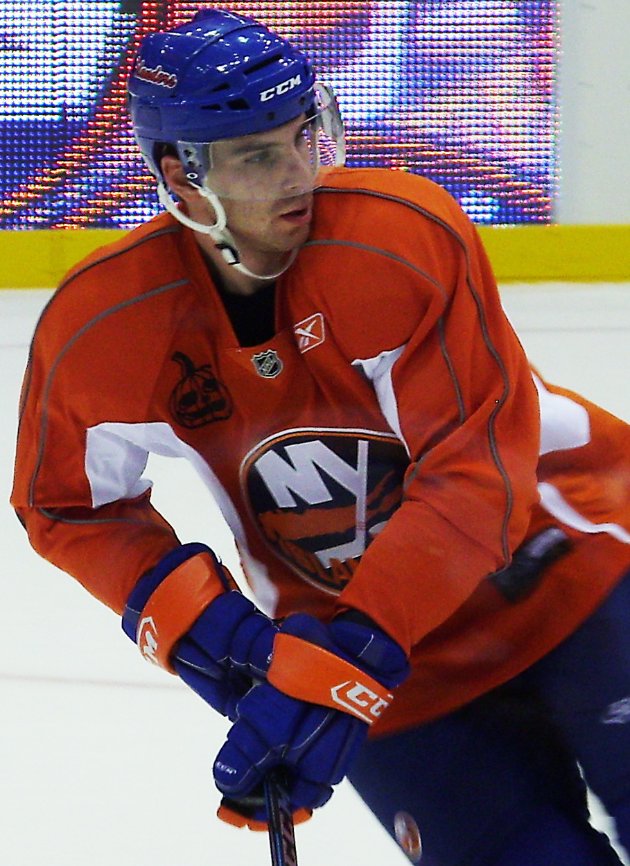 John Tavares warming up in pregame war ups on Oct 31, 2009 at the Nassau Veterans Memorial Coliseum